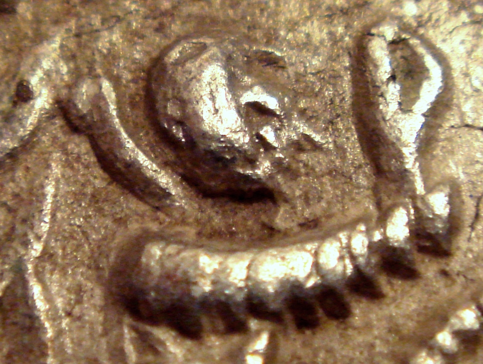 Profile of the Indo-Scythian king Azes II, from one of his coins. Personal photograph 2007.